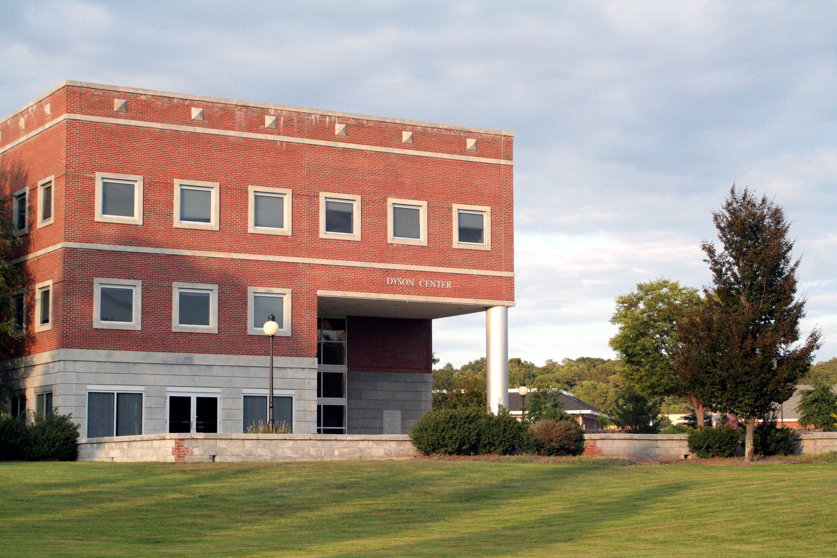 Dyson Center at Marist College